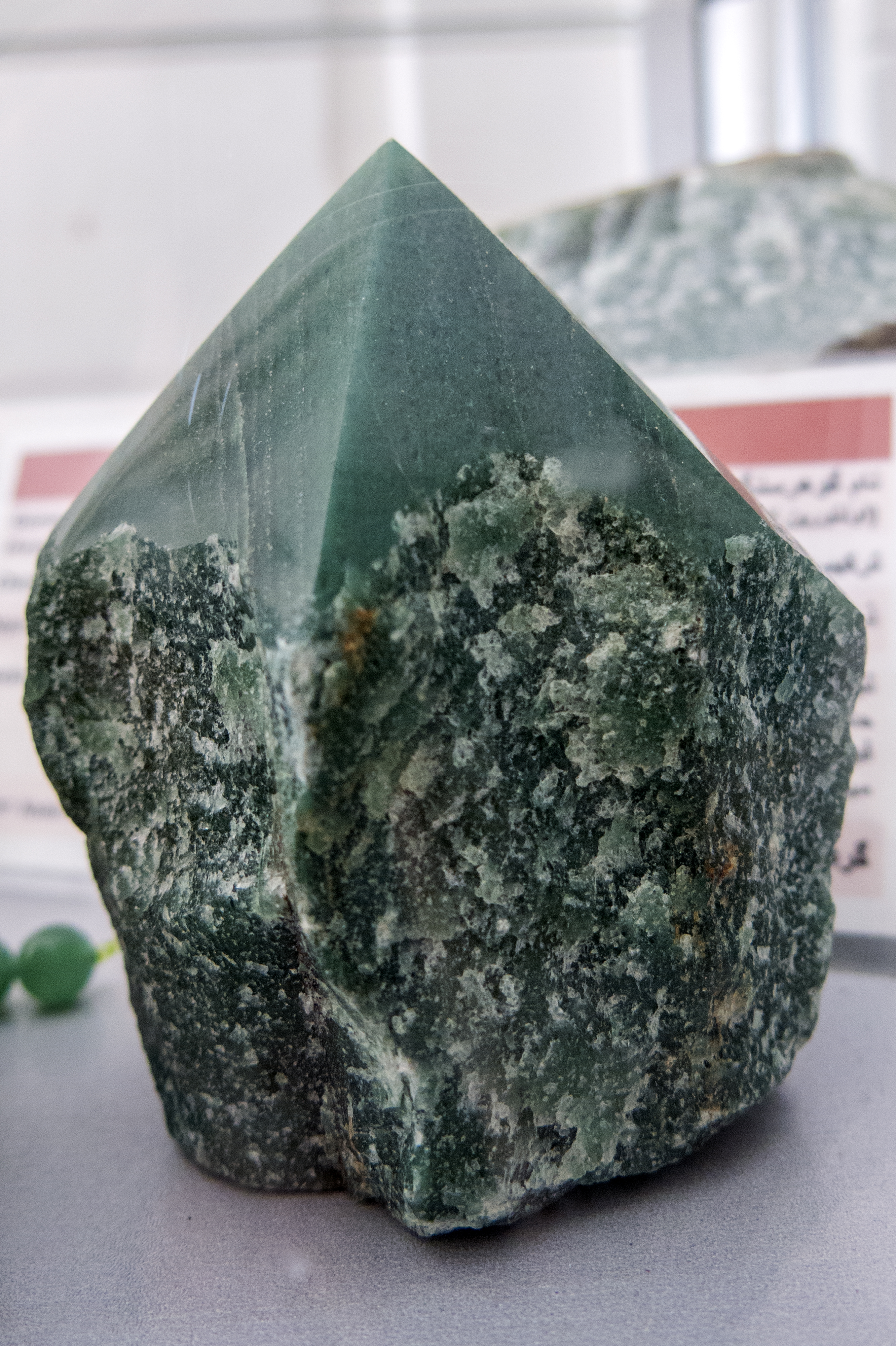 Aventurine is a form of quartz, characterised by its translucency and the presence of platy[clarification needed] mineral inclusions that give a shimmering or glistening effect termed aventurescence.